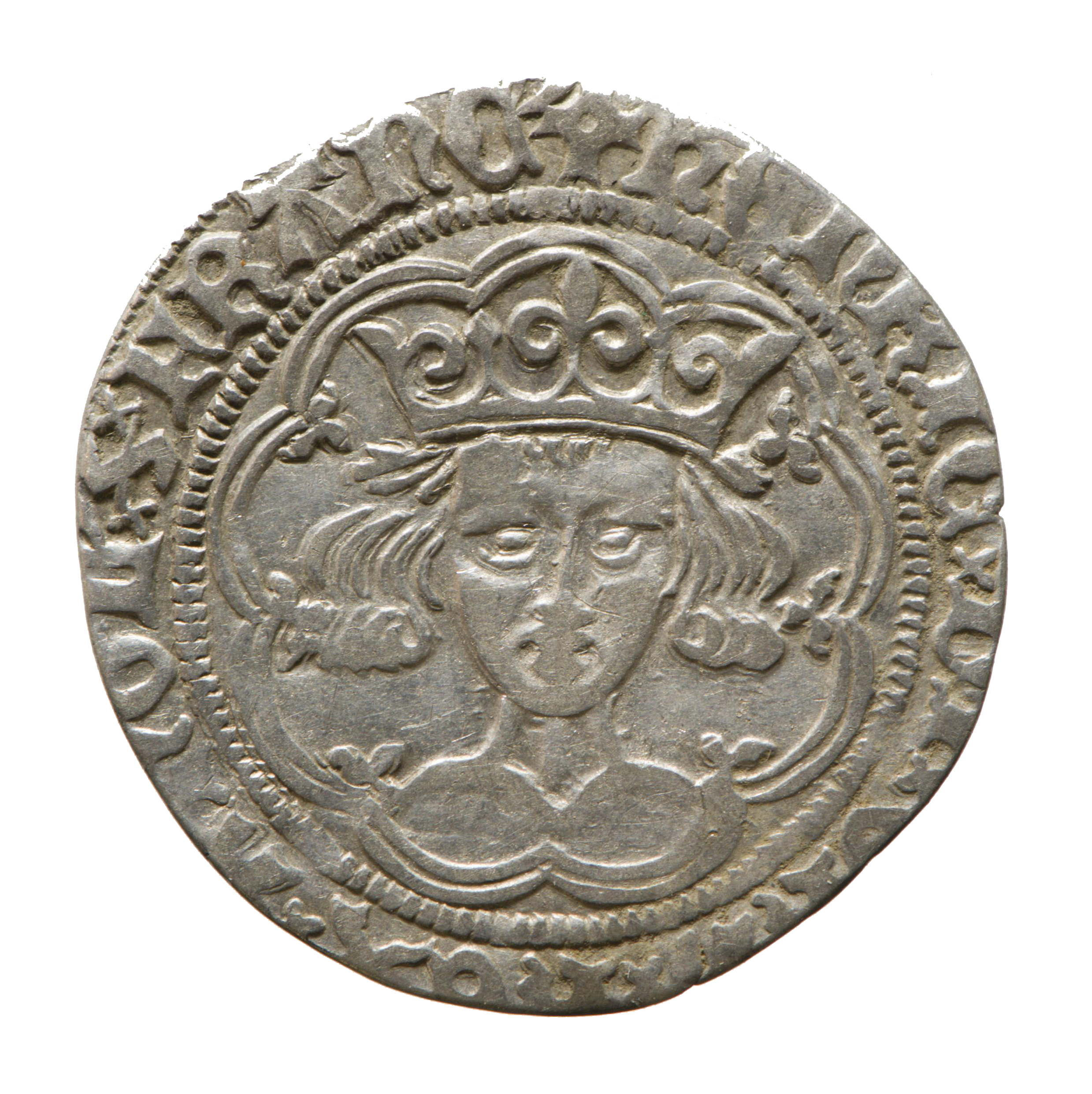 Obverse (front) of a silver groat of w: Henry VI of England Crowned head facing forward.